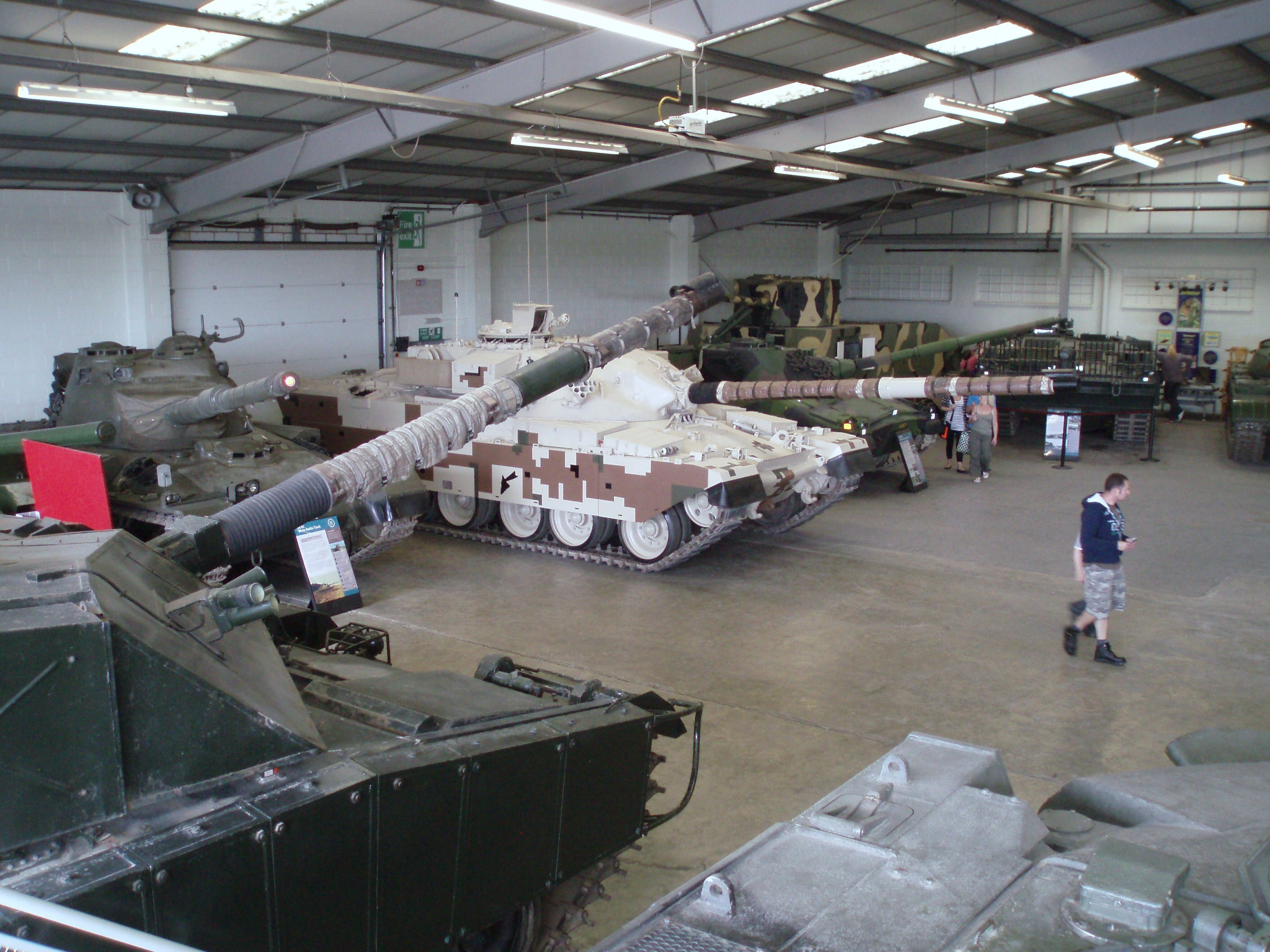 Bovington Tank Museum 299